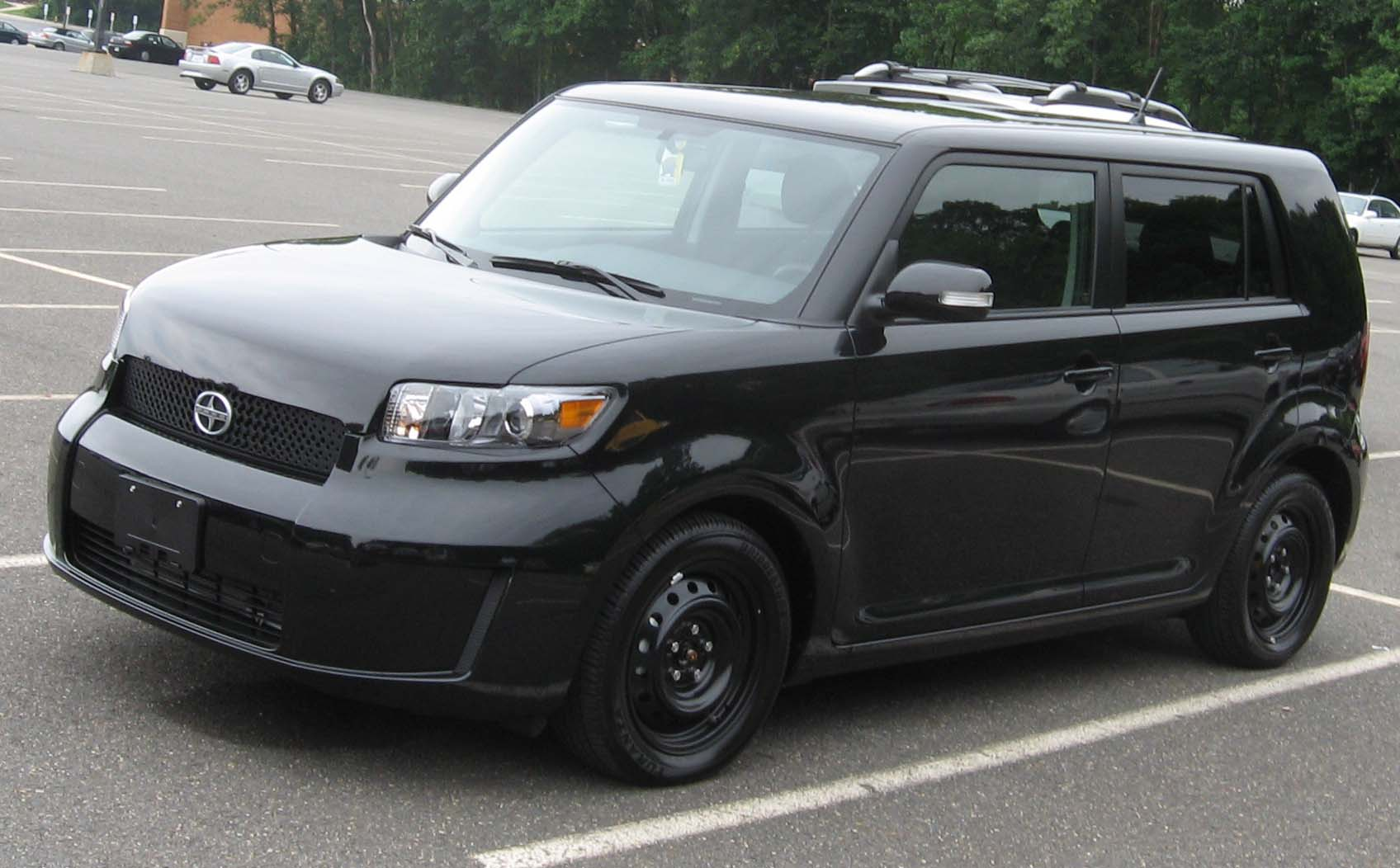 2008 Scion xB photographed in USA.